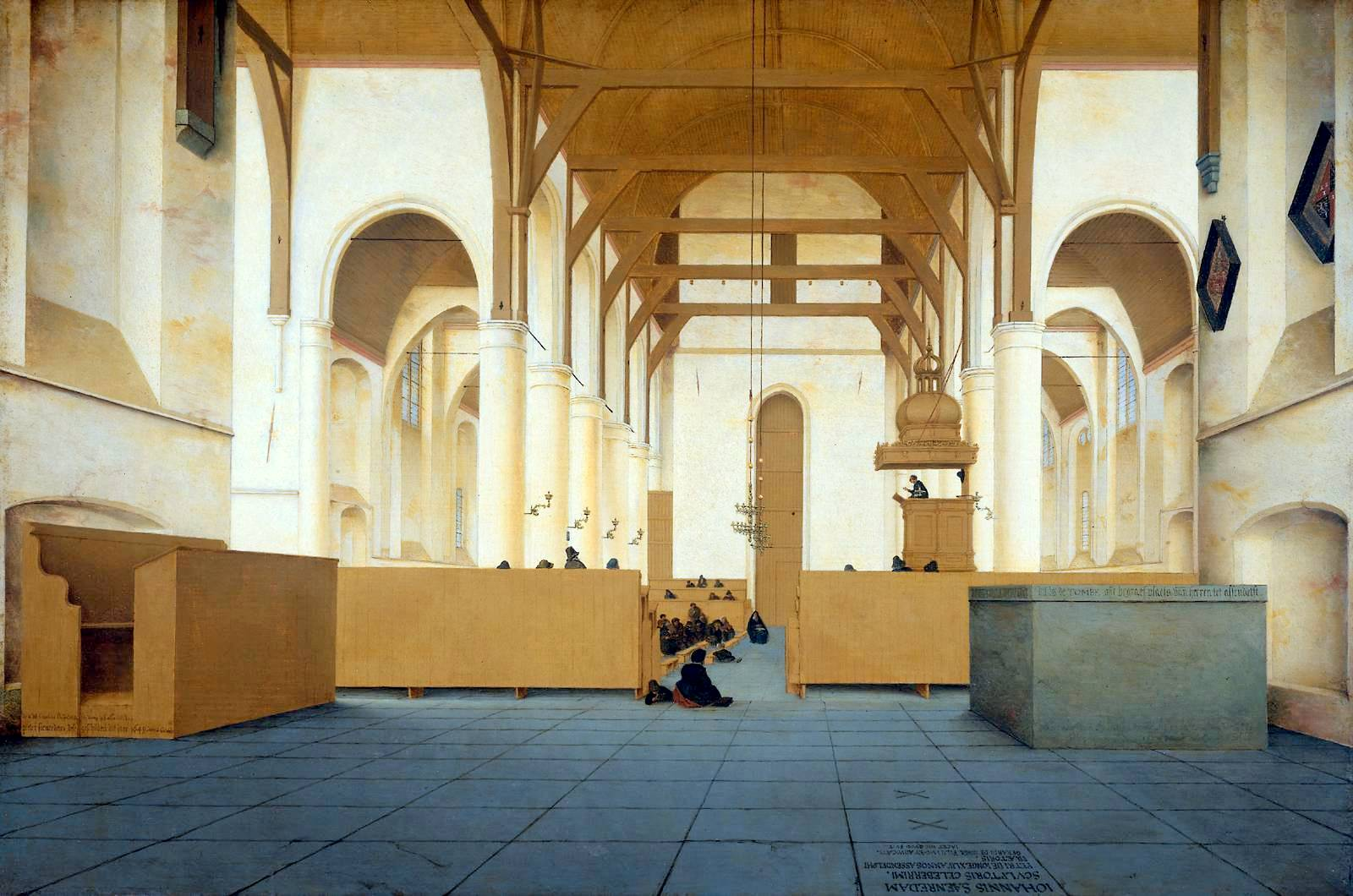 Interior of the Sint-Odulphuskerk in Assendelft, seen from the choir westwards, during a church sermon. To the right the minister stands in the pulpit. To the right on the floor is indicated the gravestone of Jan Saenredam, the painter's father.